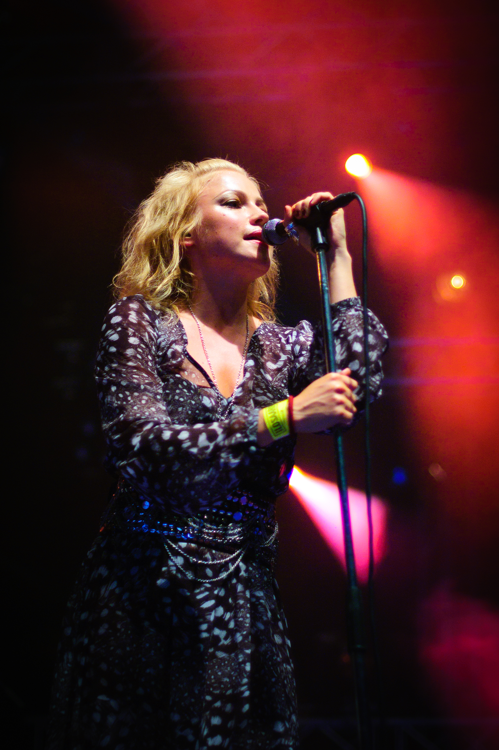 Finnish vocalist Chisu performing at the 2010 Ilosaarirock festival in Joensuu, Finland.